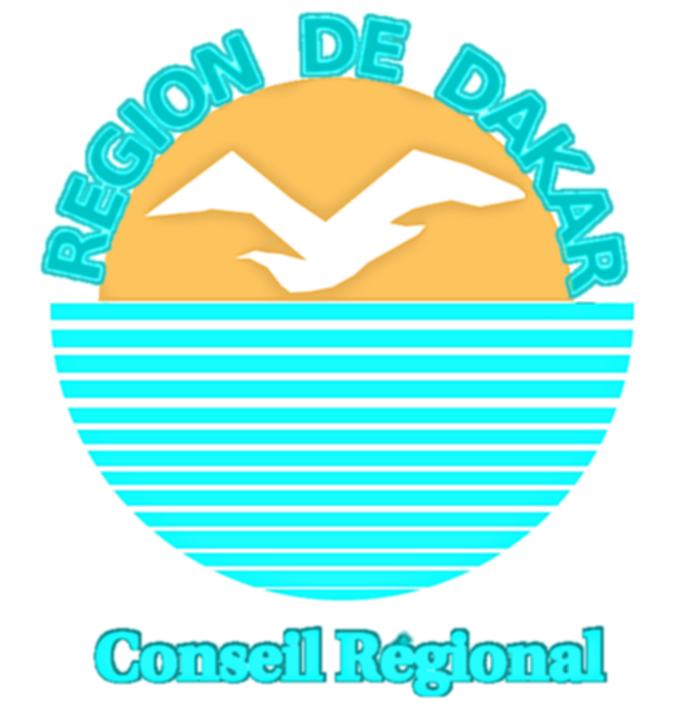 logo of the council regionaux de dakar, Dakar Region, Senegal. Redrawing of Image:Dakar region.jpg